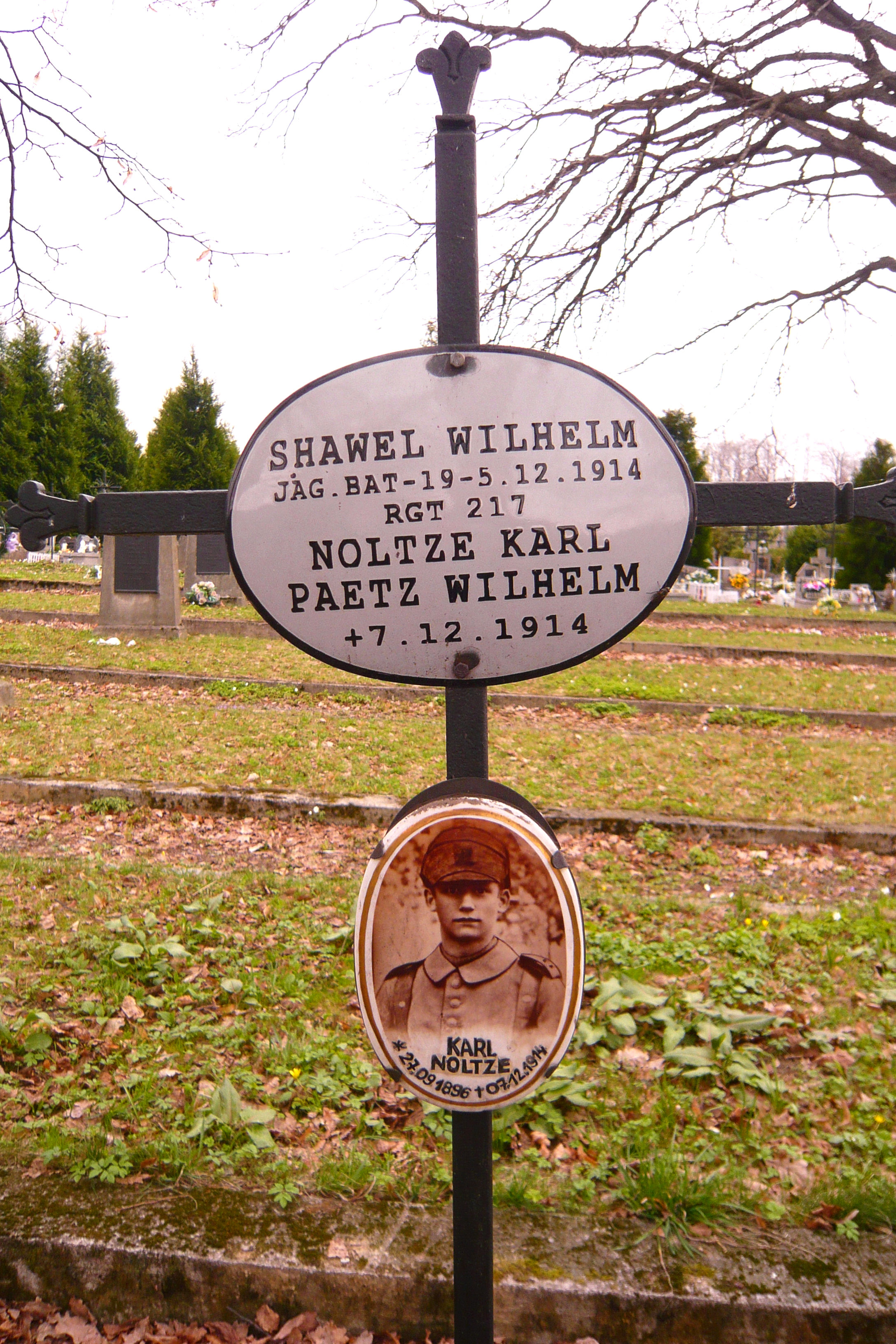 World War I Cemetery nr 302 in Żegocina